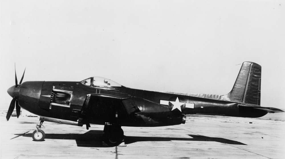 PictionID:41545411 - Title:Ray Wagner Collection Image - Catalog:16_000510 Curtiss XF15C-1 - Filename:16_000510 Curtiss XF15C-1.tif - Image from the Ray Wagner Collection. Ray Wagner was Archivist at the San Diego Air and Space Museum for several years and is an author of several books on aviation --- ---Please Tag these images so that the information can be permanently stored with the digital file.---Repository: San Diego Air and Space Museum